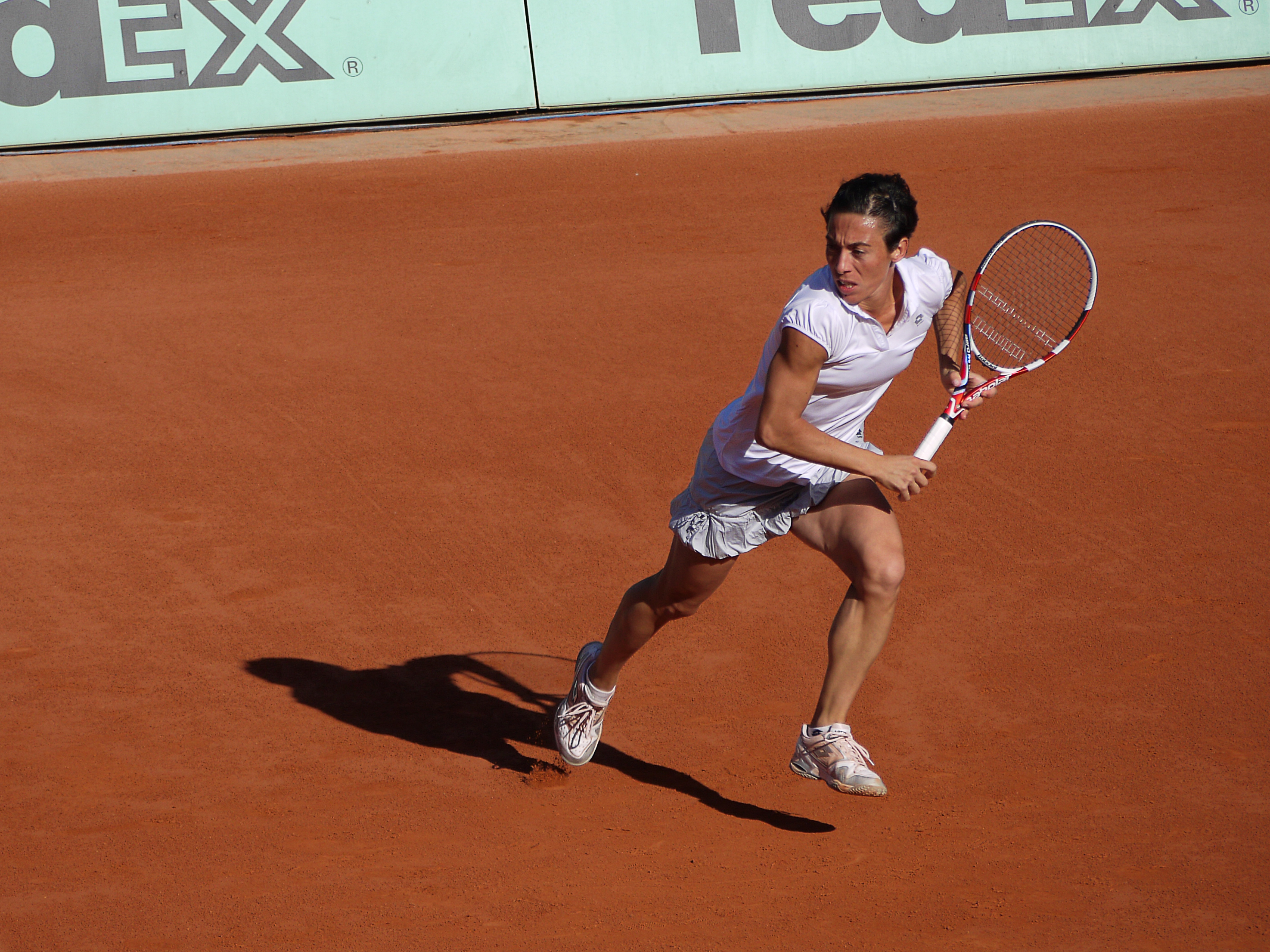 Francesca Schiavone (ITA) def. Vesna Dolonts (RUS) Roland Garros 2011 - mercredi 25 mai - 2ème tour - Court Philippe Chatrier 2011 Roland Garros.